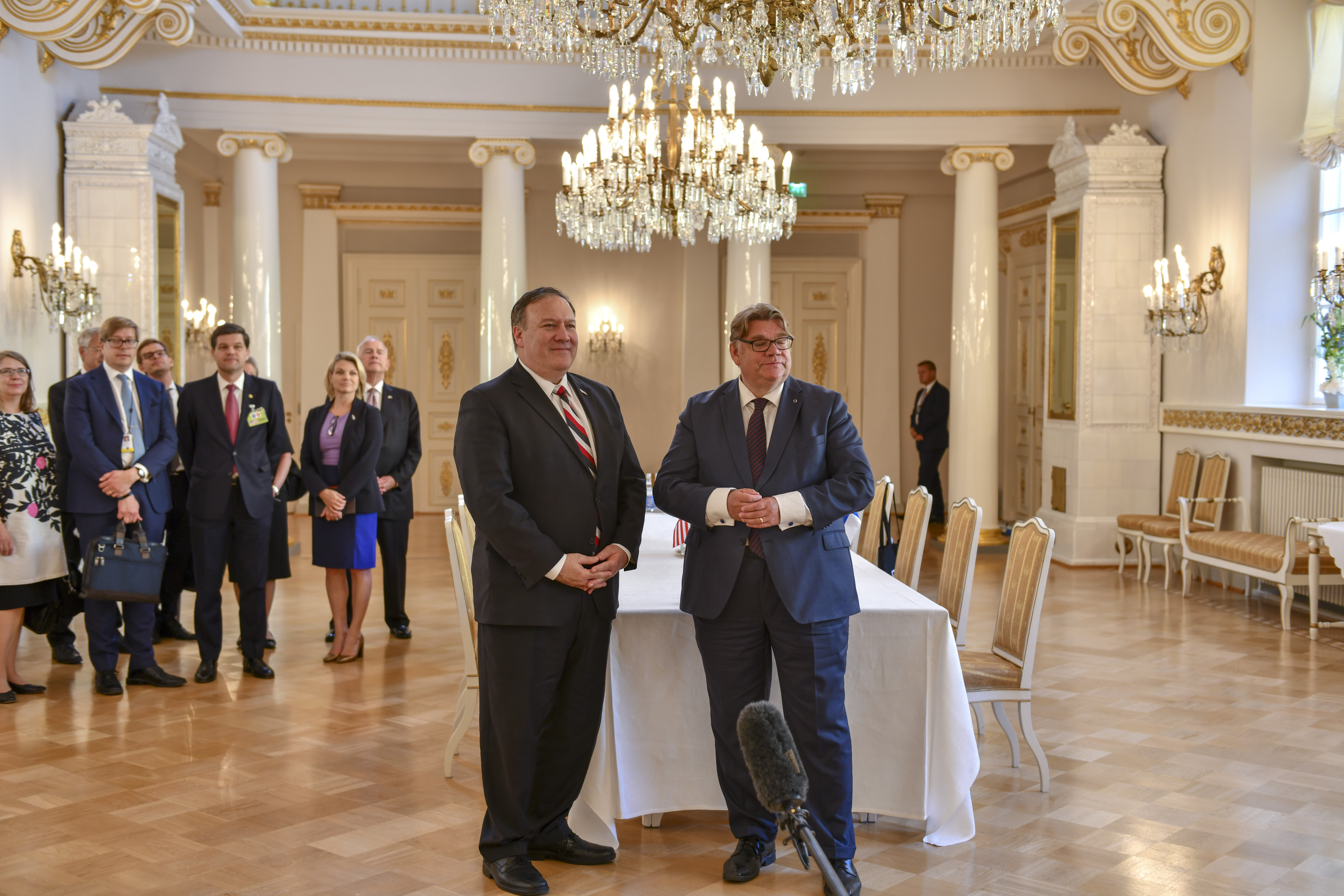 U.S. Secretary of State Michael R. Pompeo meets with Finnish Foreign Minister Timo Soini at the Finnish Presidential Palace, Hall of Mirrors in Helsinki, Finland on July 16, 2018. [State Department photo/ Public Domain]